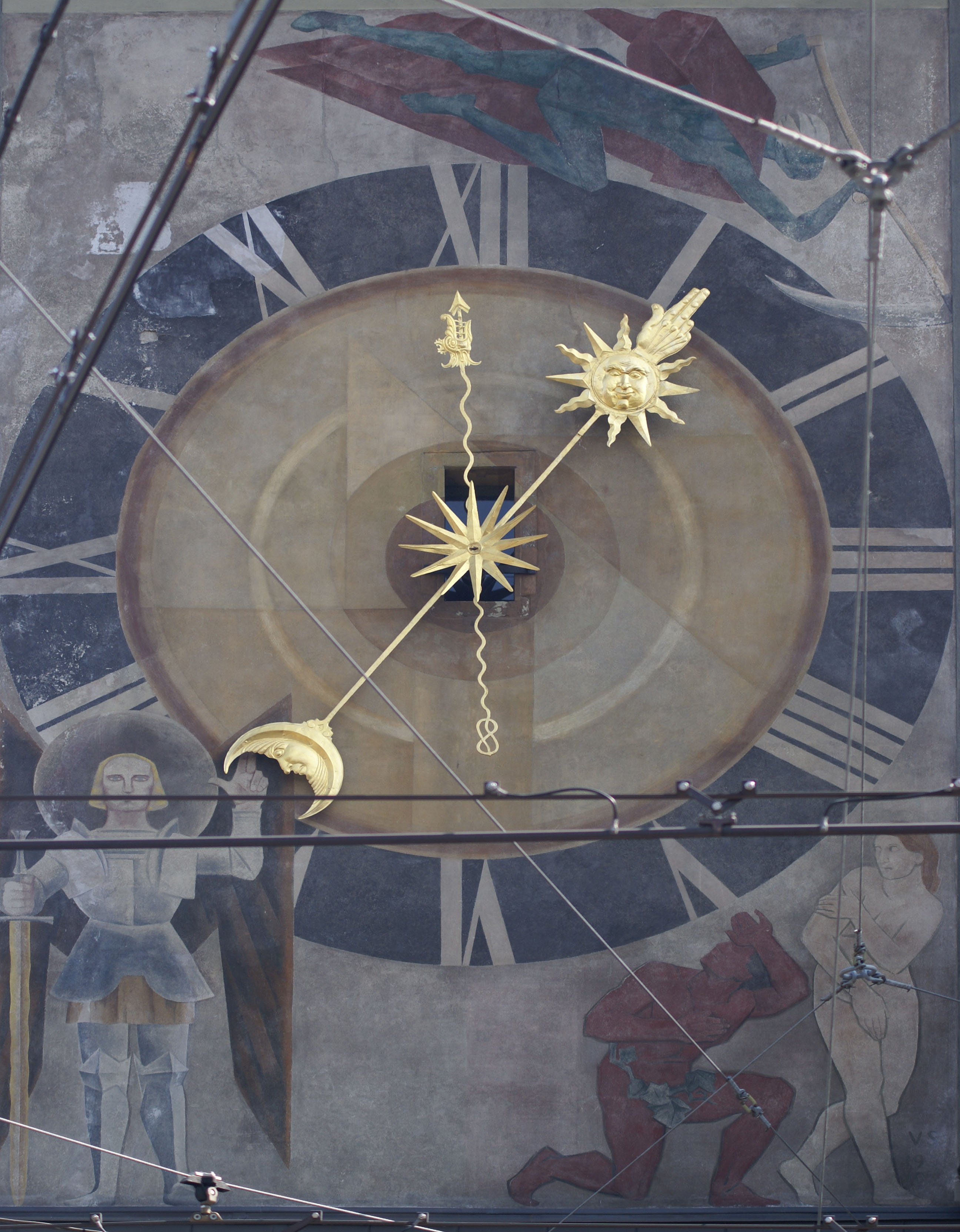 Zytglogge tower in Bern, Switzerland. Architectural detail: western clock face. Fresco by Victor Surbek.